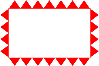 Arakkal flag, derived from [1]